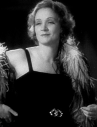 Cropped screenshot of Marlene Dietrich from the trailer for the film Morocco